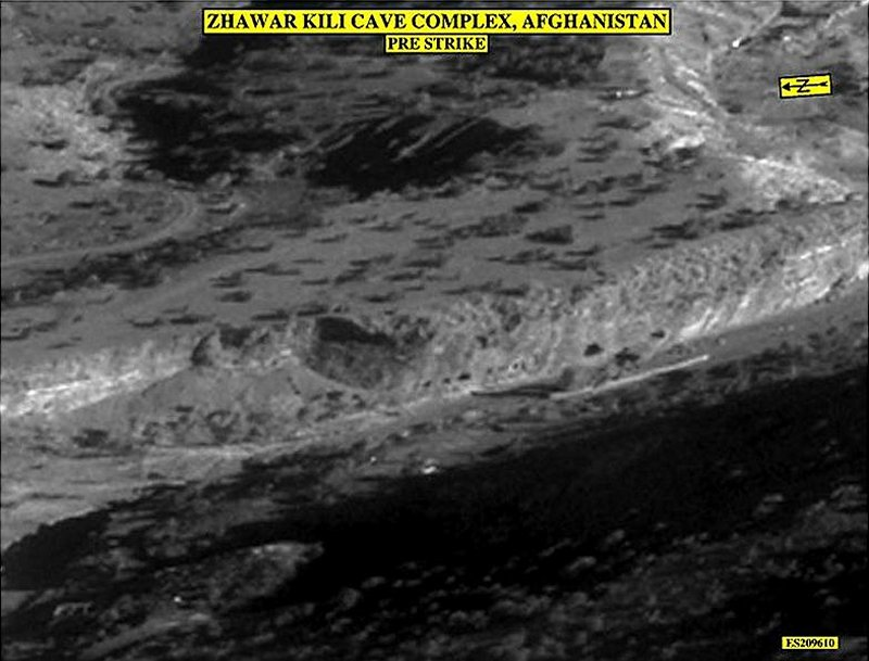 The Zhawar Kili cave complex, Paktia Province, Afghanistan. Photo taken by USAF reconnaissance aircraft.